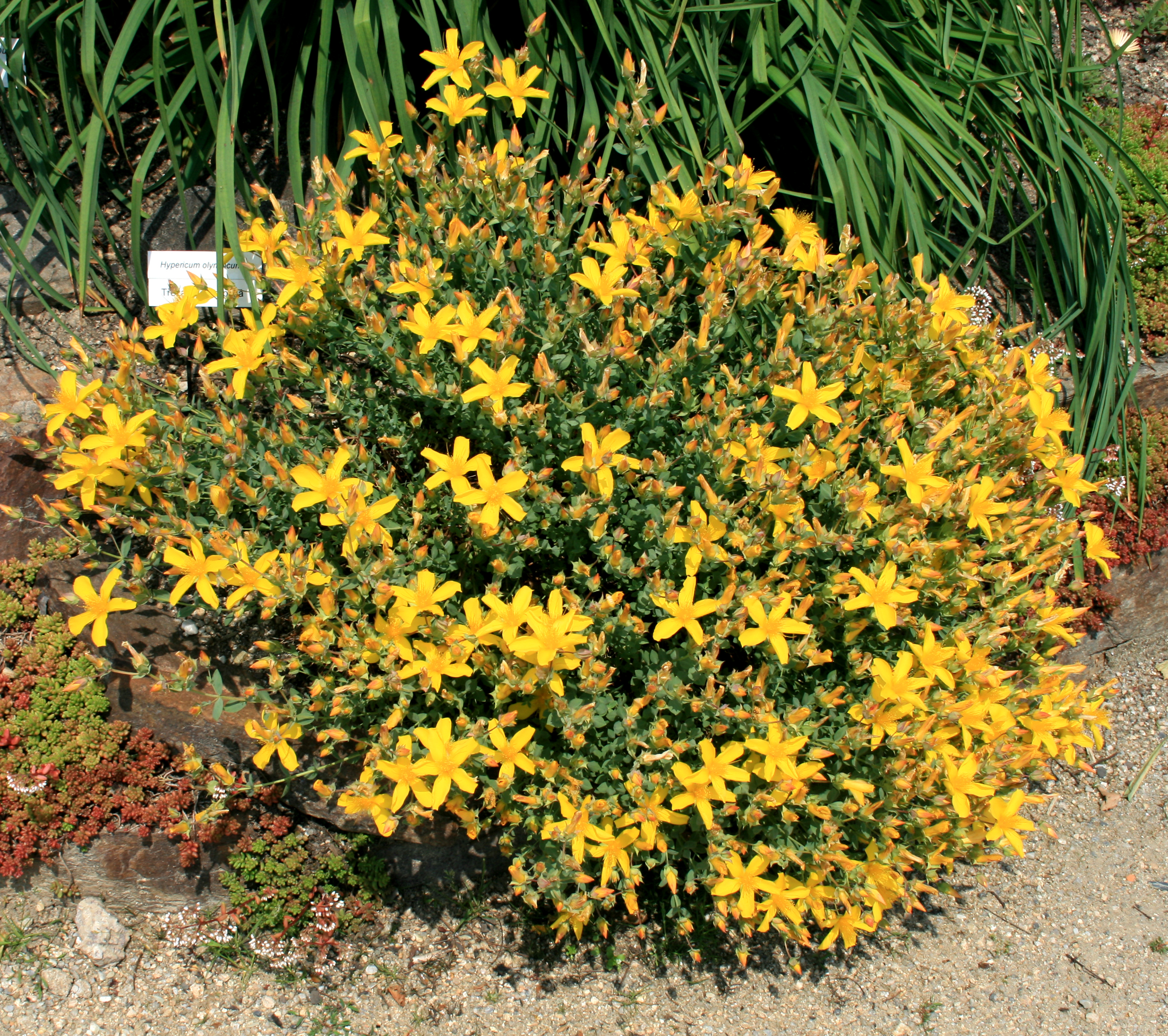 Hypericum olympicum in Botanical Garden Liberec, Czech Republic